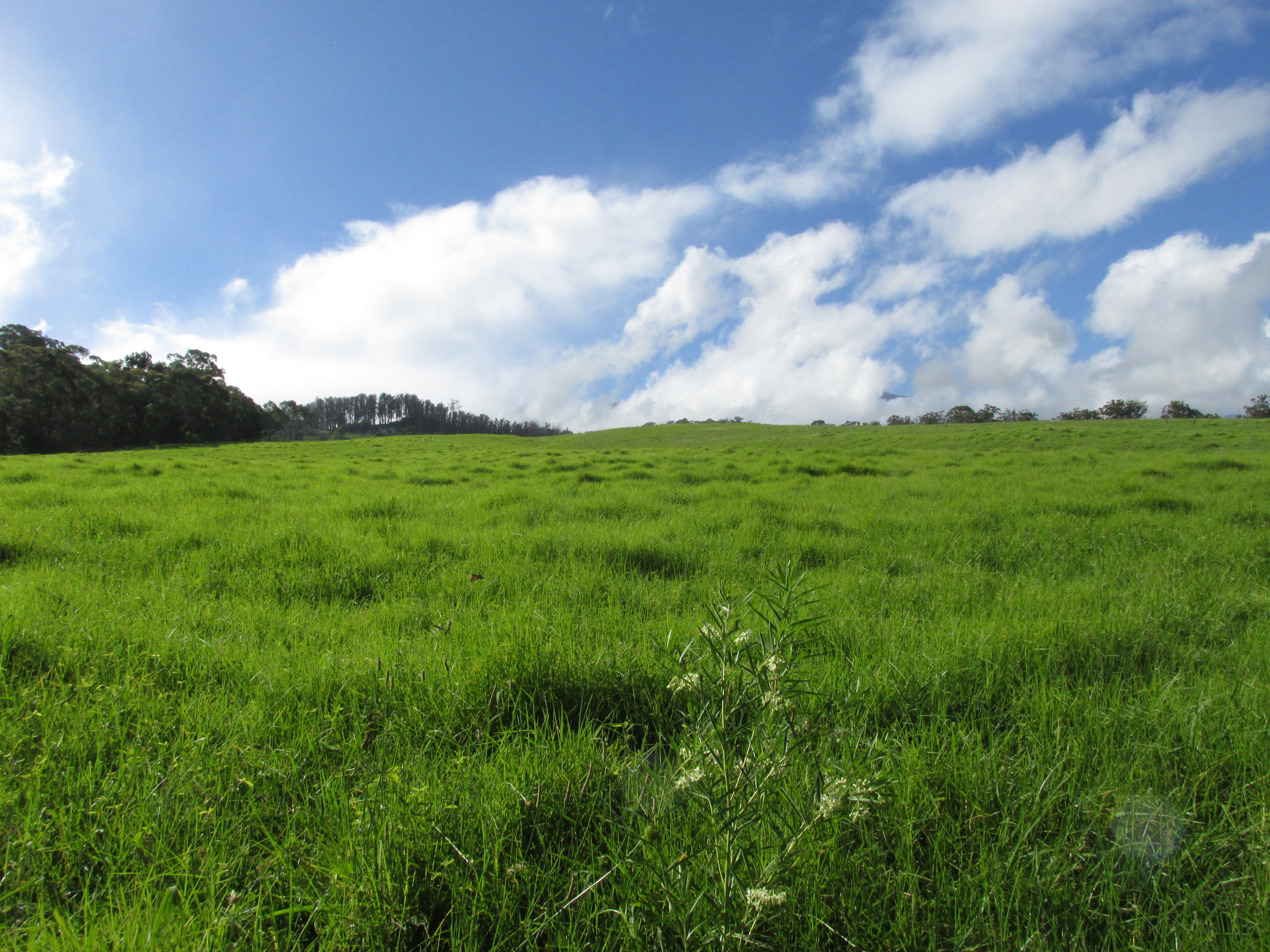 Cenchrus clandestinus (Kikuyu grass) View mauka and pastures at Hawea Pl Olinda, Maui, Hawaii. April 26, 2017 #170426-8036 Image Use Policy Also known as Pennisetum clandestinum.